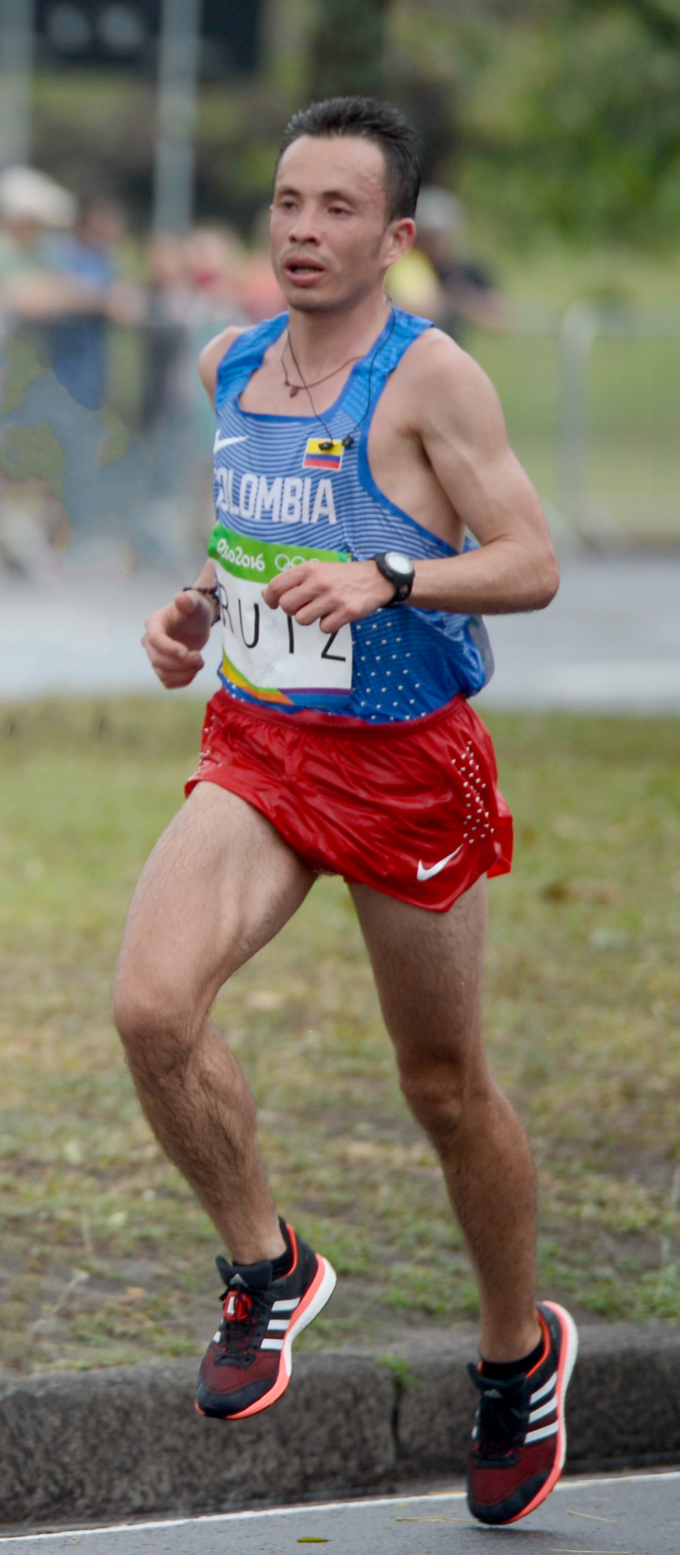 Rio de Janeiro - Sob chuva forte atletas da maratona masculina passam pelo aterro do Flamengo (Tânia Rêgo/Agência Brasil)